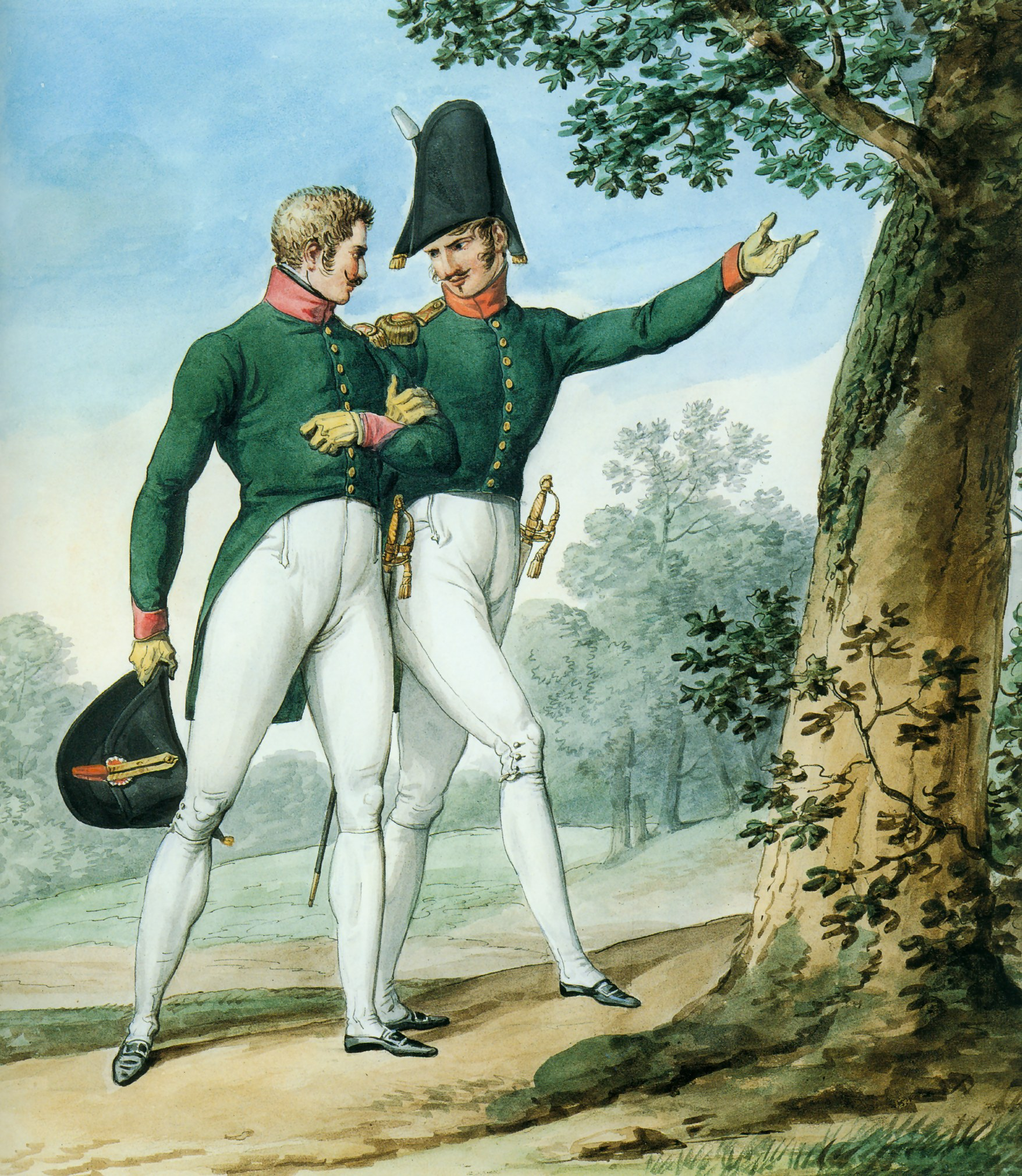 Part of a series chronicling the uniforms of Napoleon's Grande Armée.